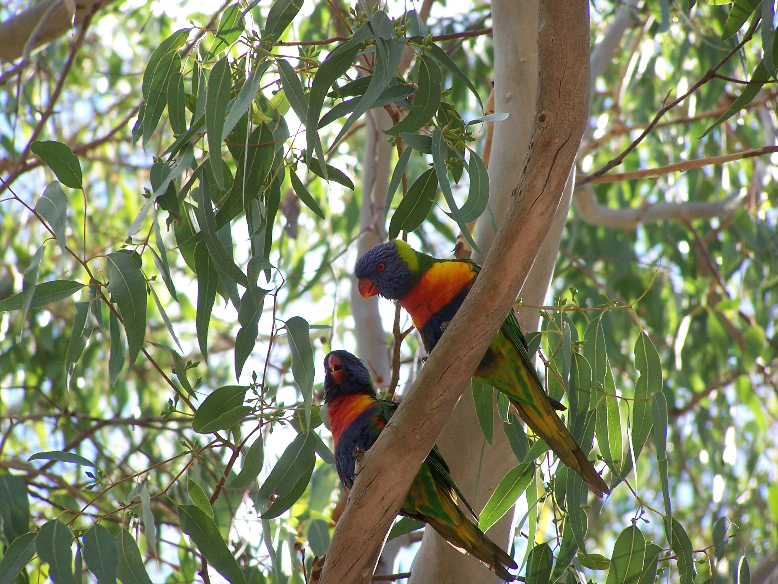 Rainbow Lorikeets Trichoglossus moluccanus at Perry Lakes Western Australia. Though a protected bird on the East Coast of Australia the Rainbow Lorikeet in WA the bird is classed as a pest, it is subject to a major cull in an attempt to drastically reduce/eradicate their numbers. The rainbow lorikeet was accidentally release by ground staff at the University of Western Australia during the 1960s and has spread across the metropolitan area of Perth and as far inland as York-Beverley area displacing the native species of Australian ringneck.